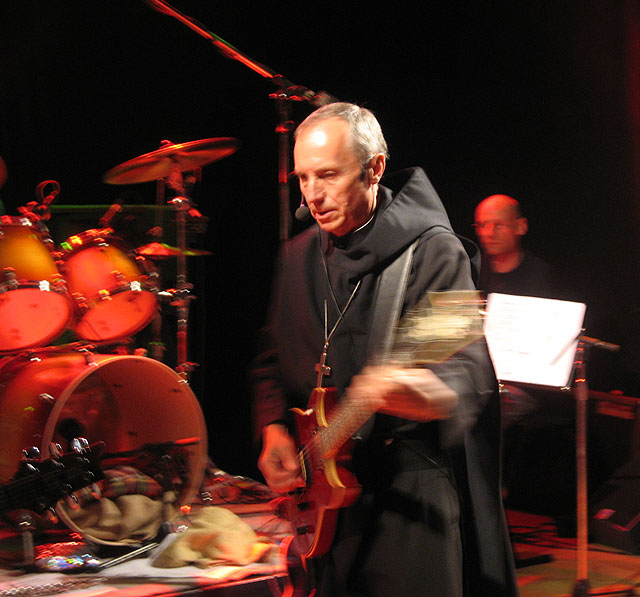 Notker Wolf, head of the order of Saint Benedict, playing a concert with his band Feedback.